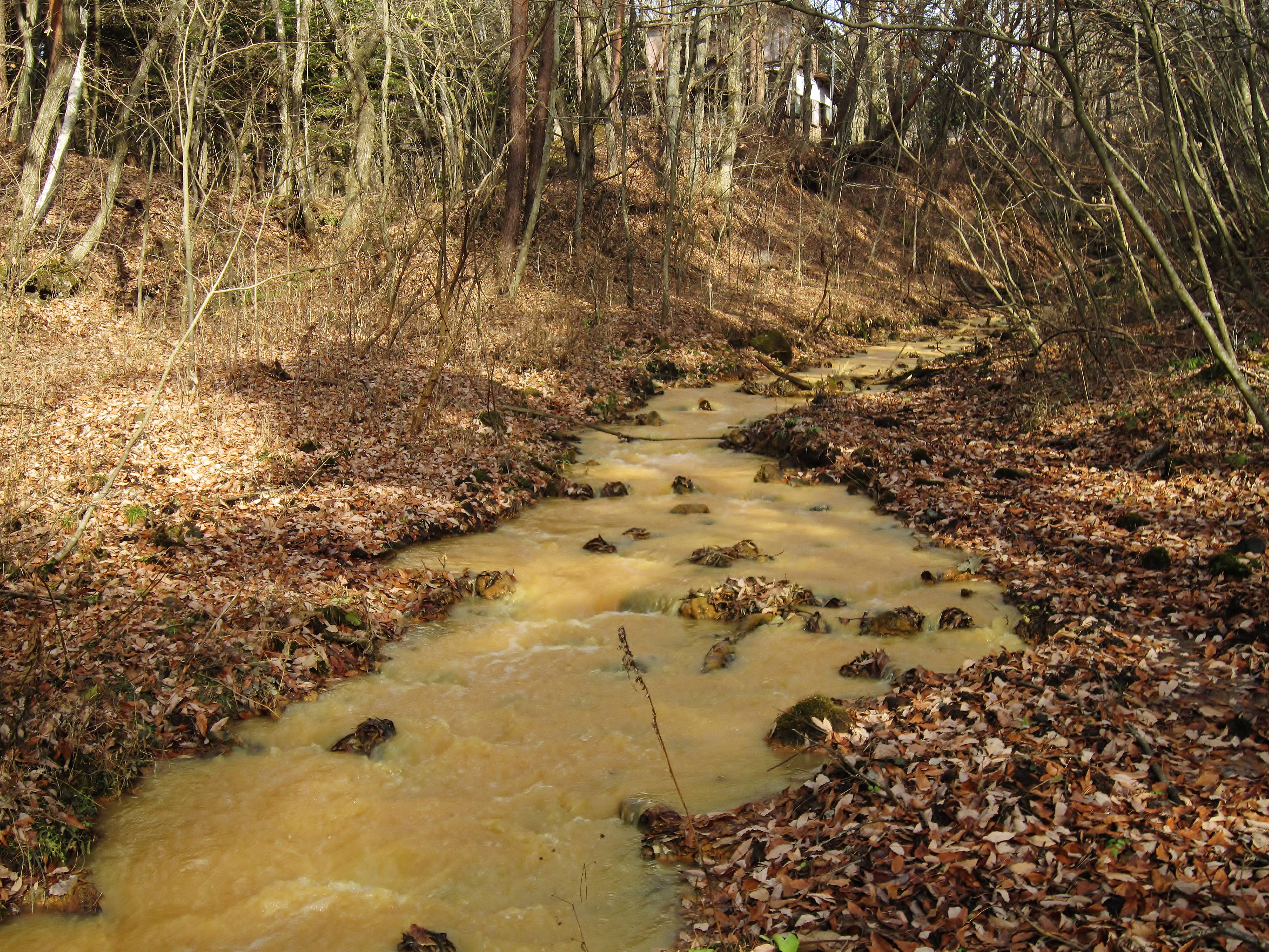 Nigori River (Karuizawa, Nagano).